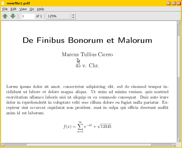 LyX output with lorem iopsum text.